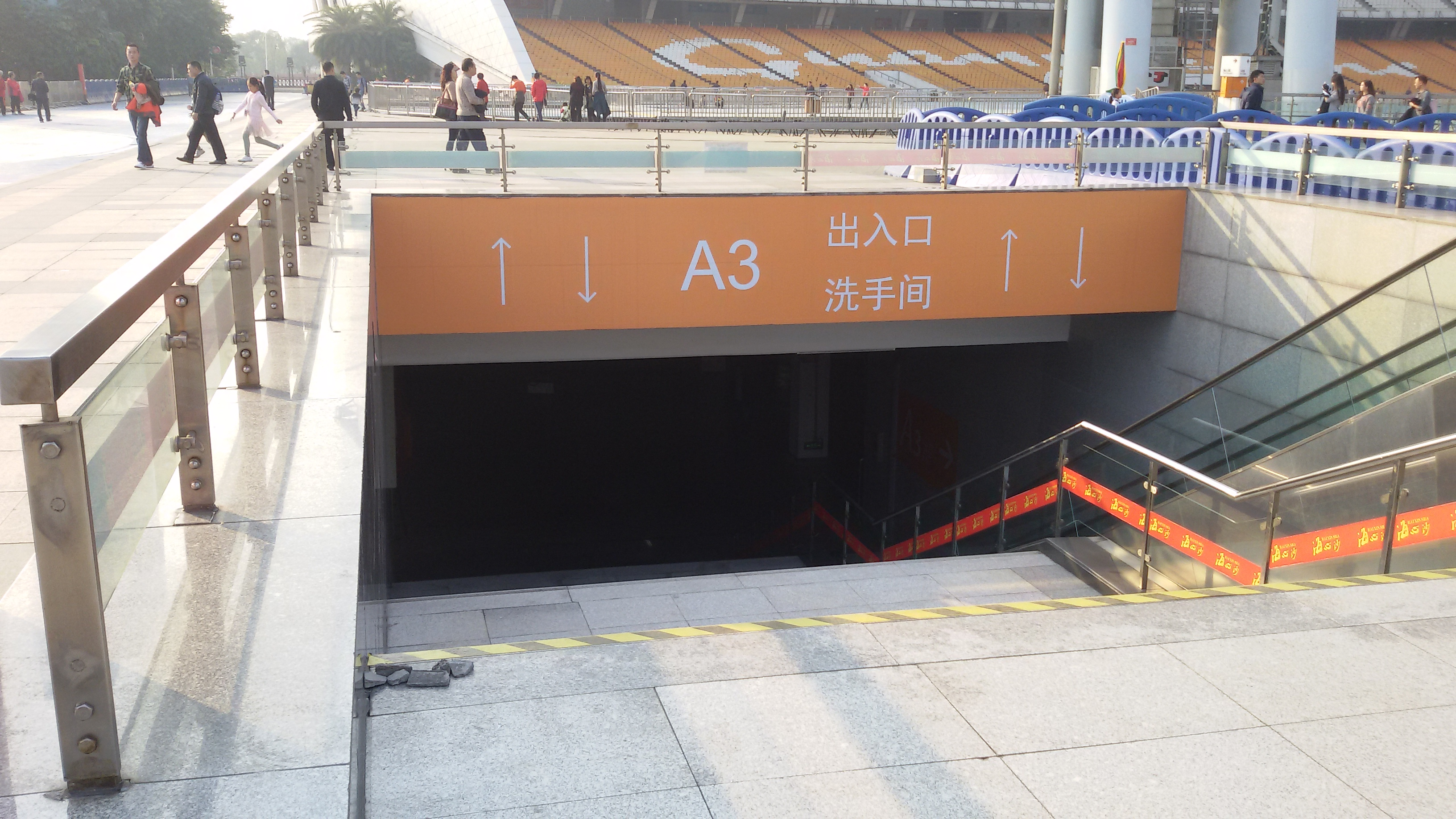 An Exit for Haixinsha Asian Games Park (That Exit is exactly for Haixinsha Station before long. But it have currently abandoned.)